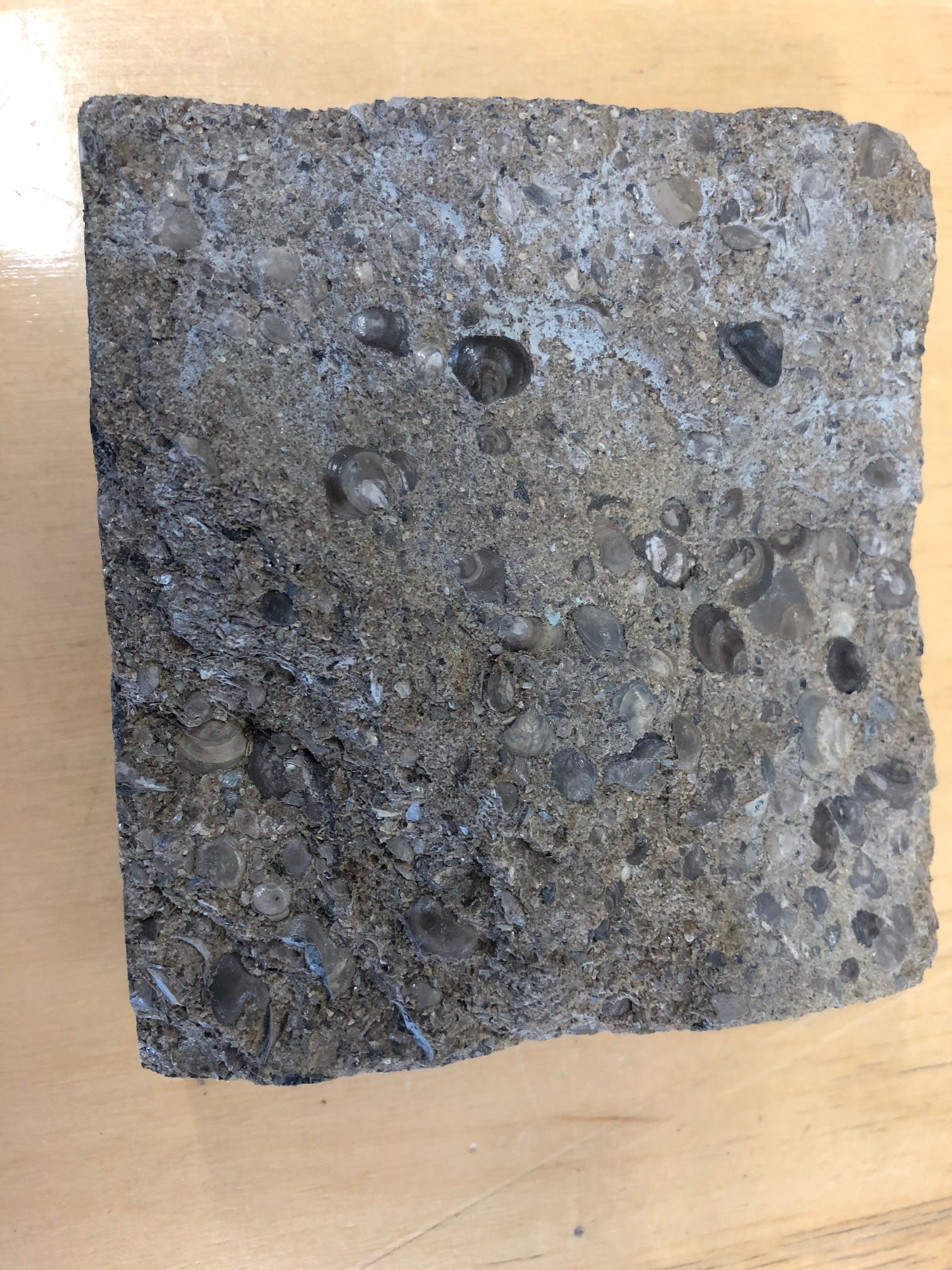 This comes from nothwestern Estonia, near Tallinn.